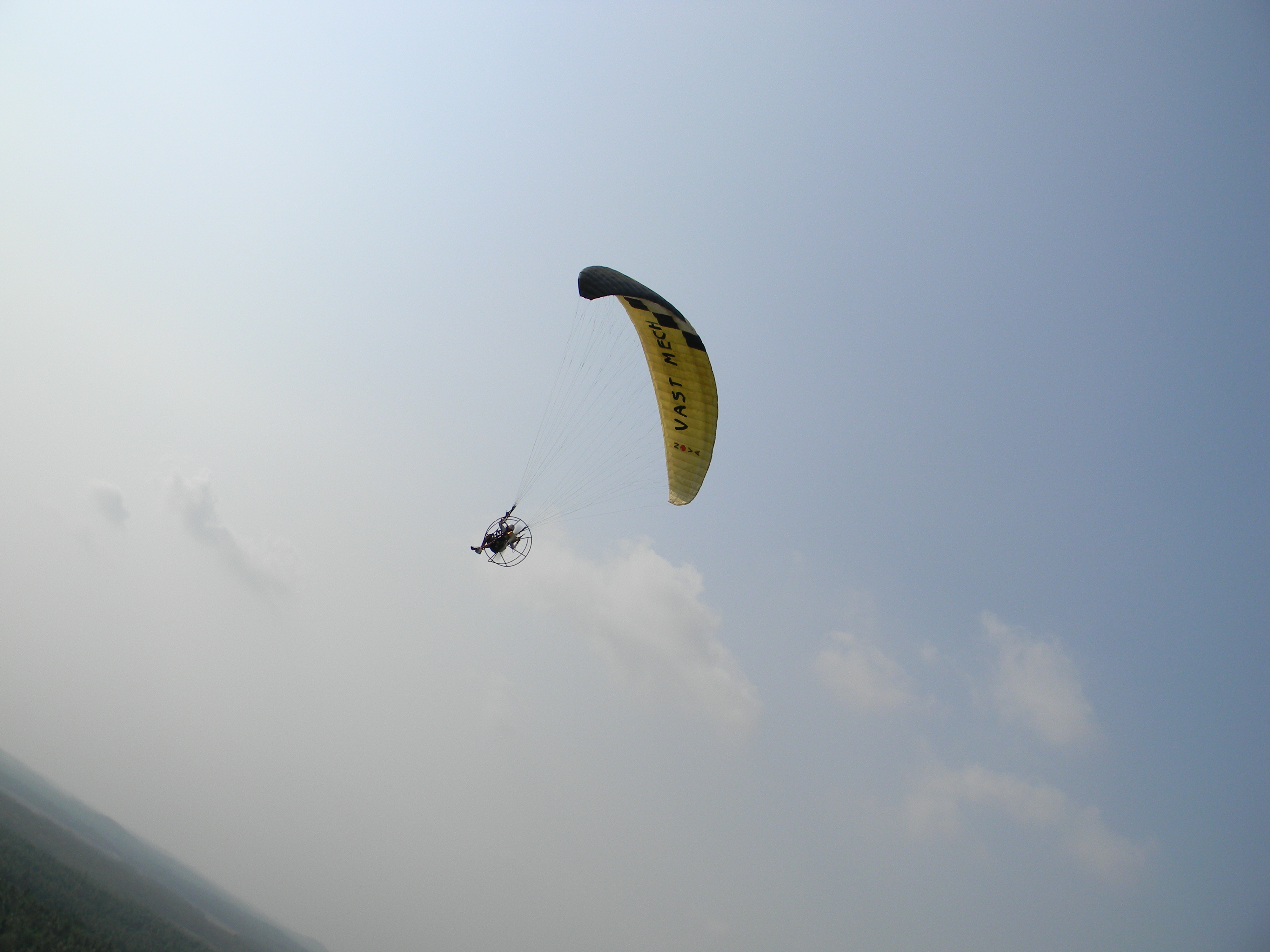 just after takeoff